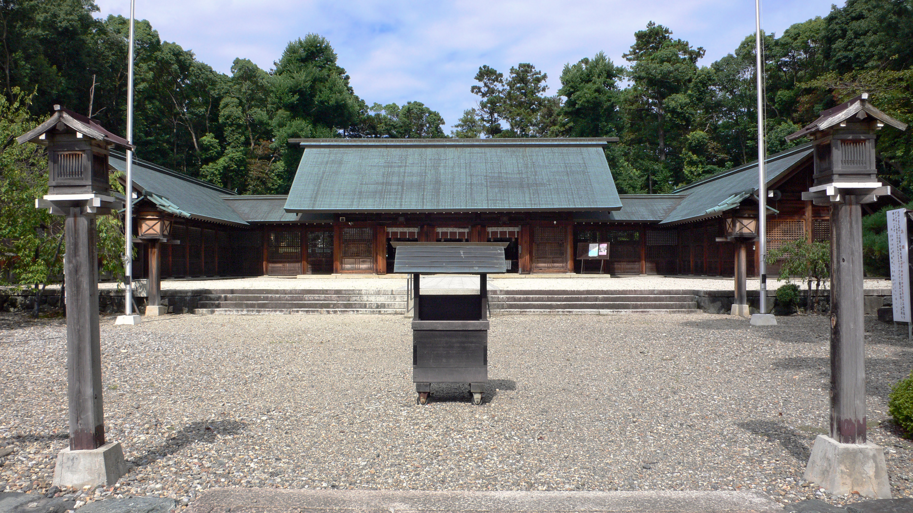 Shigaken-gokoku-jinja in Hikone, Shiga prefecture, Japan